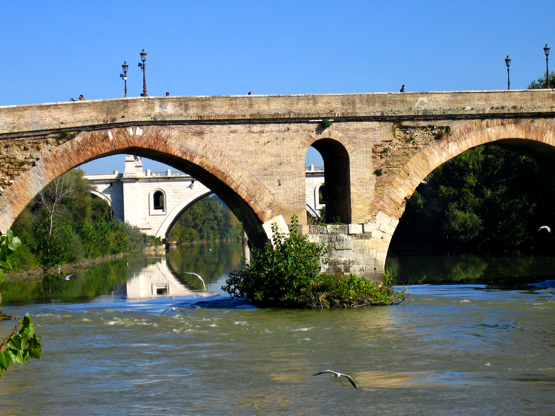 This bridge, where the river is shallow and wide, is built on the site of the emperor Maxentius's defeat and drowning.